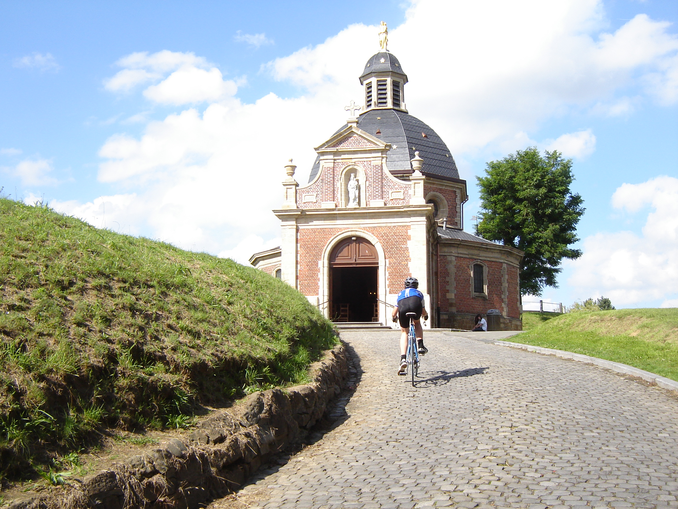 Top of the Oudeberg hill (Muur) in Geraardsbergen. Chapel of Our Lady of Oudeberg. Last part of the "Muur van Geraardsbergen" climb, known from cycling classics. Geraardsbergen, East Flanders, Belgium.